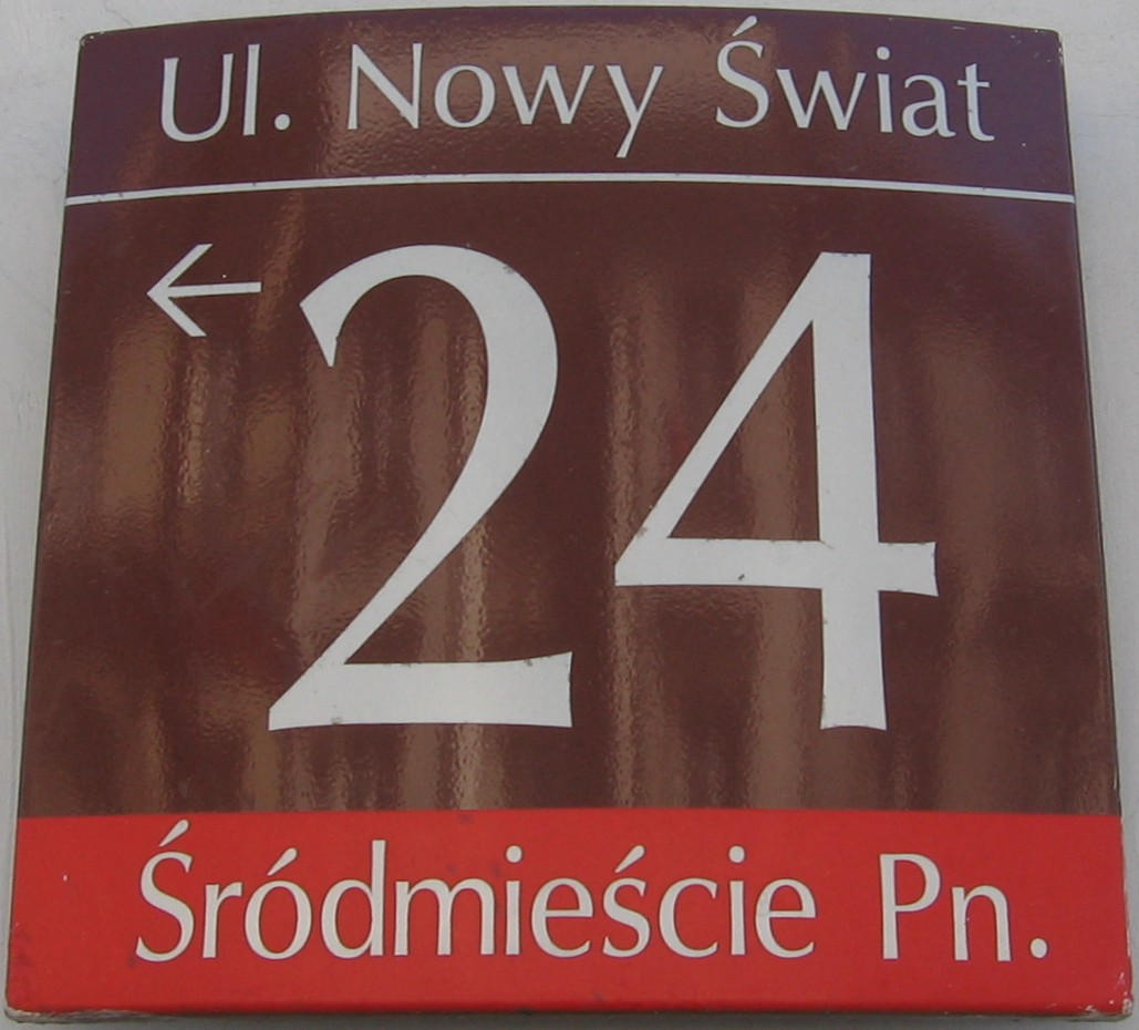 City Information System table used in histrorical areas